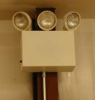 Process_Area_Emergency_Li... 800 x 839 pixels - 463k from google pictures